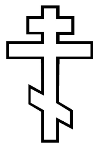 presswriter symbols: 188